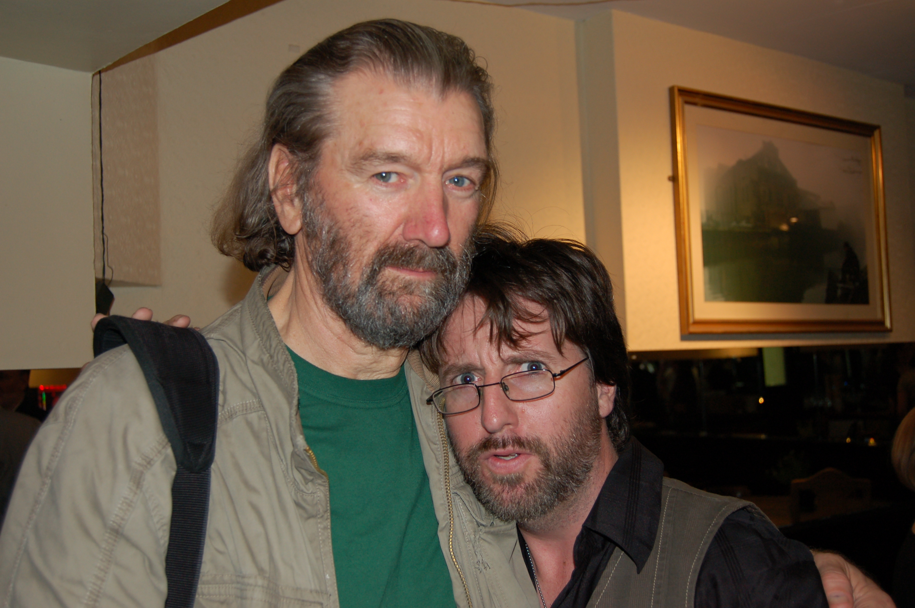 Leon Ousby and Clive Russell